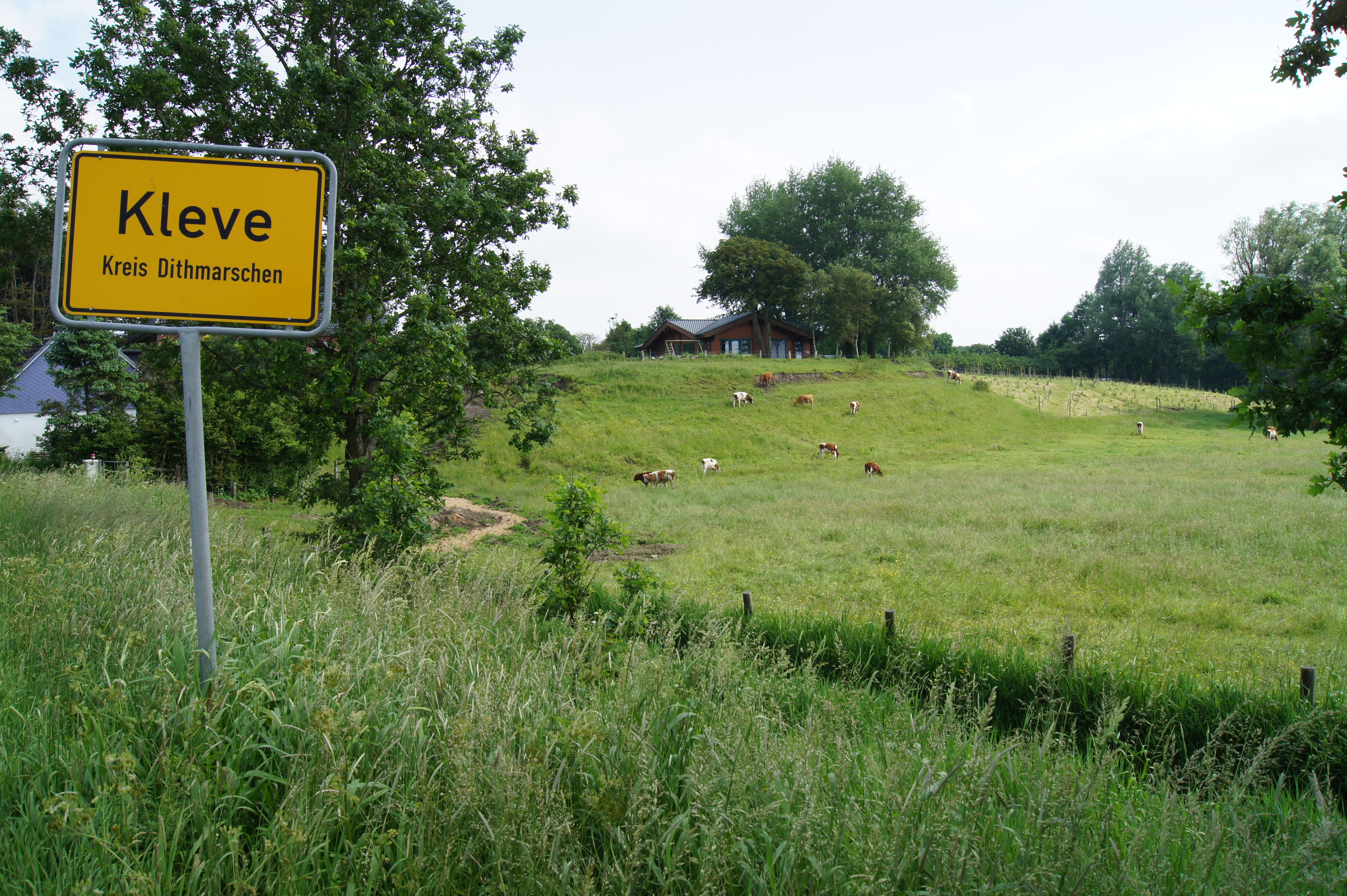 Kleve (Dithmarschen), Germany: The town on the border of the Geest and the marsh